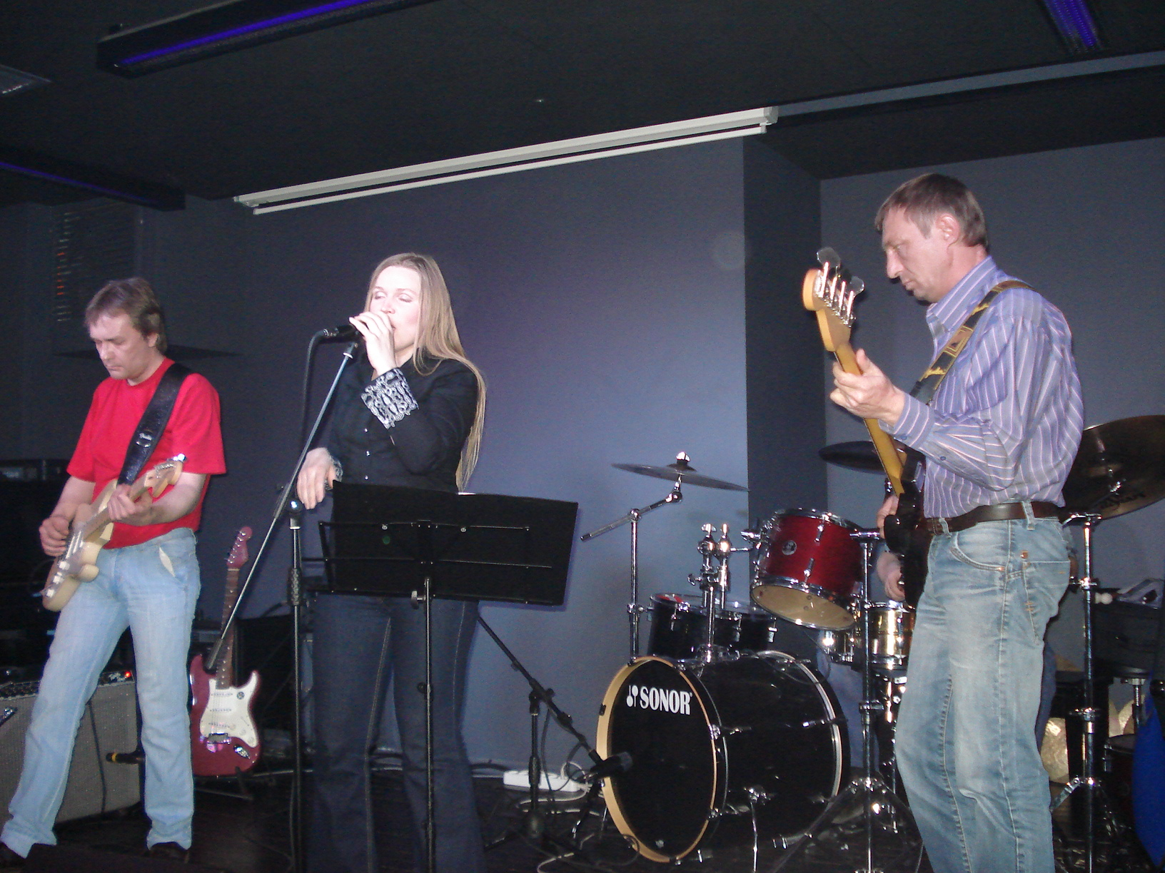 The Baragozes Band